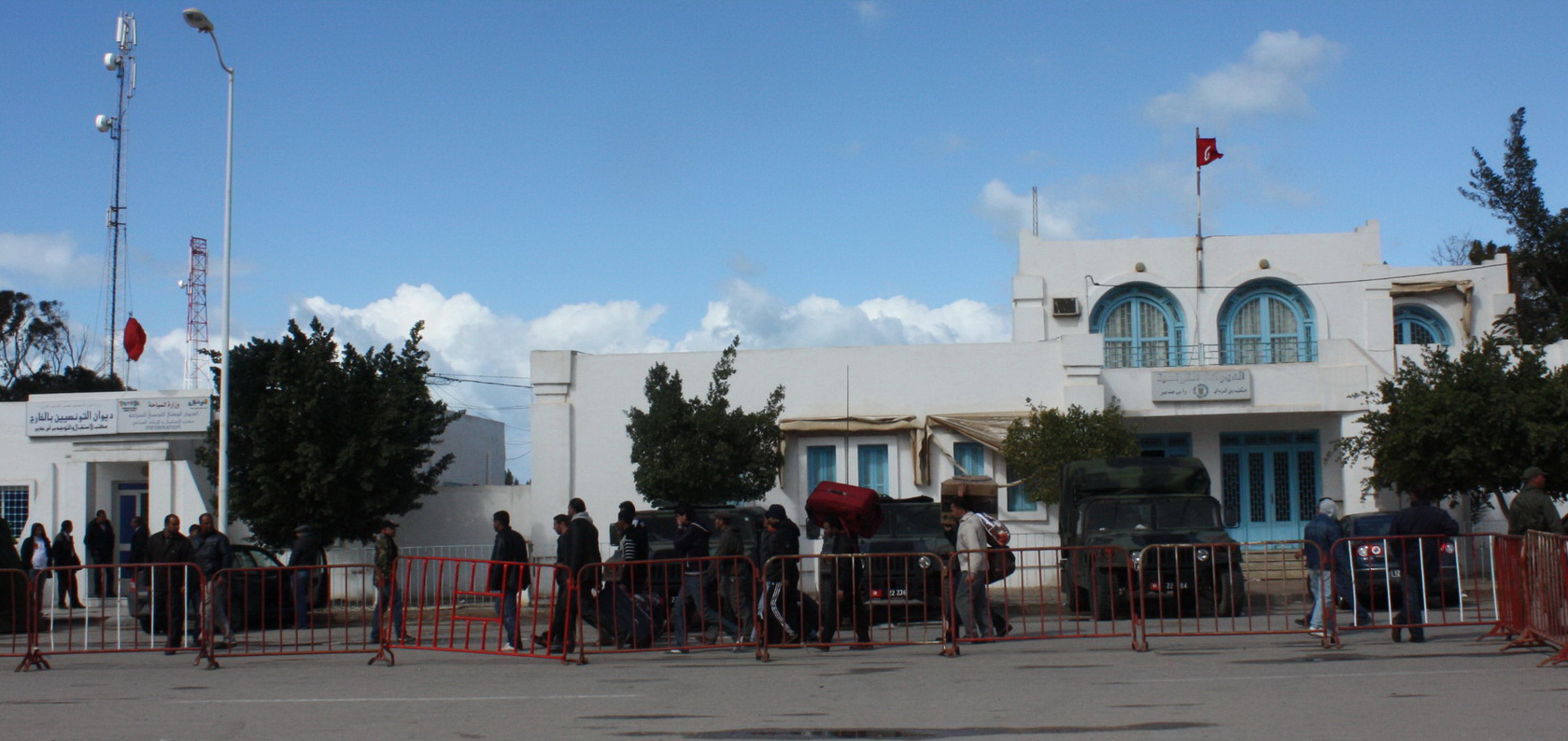 [Mohamed El Hedef] Tunisian army units were deployed to the border to assist with the emergency. وحدات الجيش التونسي منتشرة على الحدود للمساعدة في هذه الظروف الطارئة Des unités de l'armée tunisienne ont été déployées à la frontière pour apporter une aide d'urgence. The story: القصة L'article